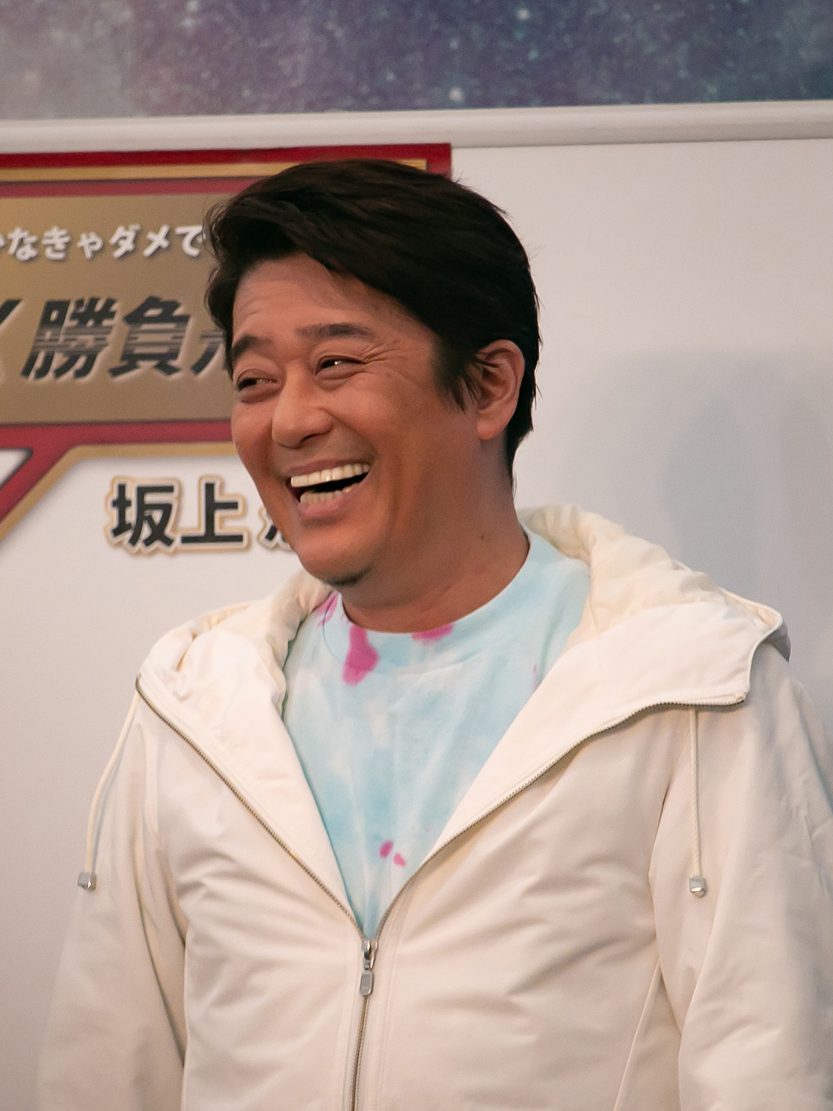 Shinobu Sakagami (Television personality from Japan) in Boat Race Suminoe, Osaka.